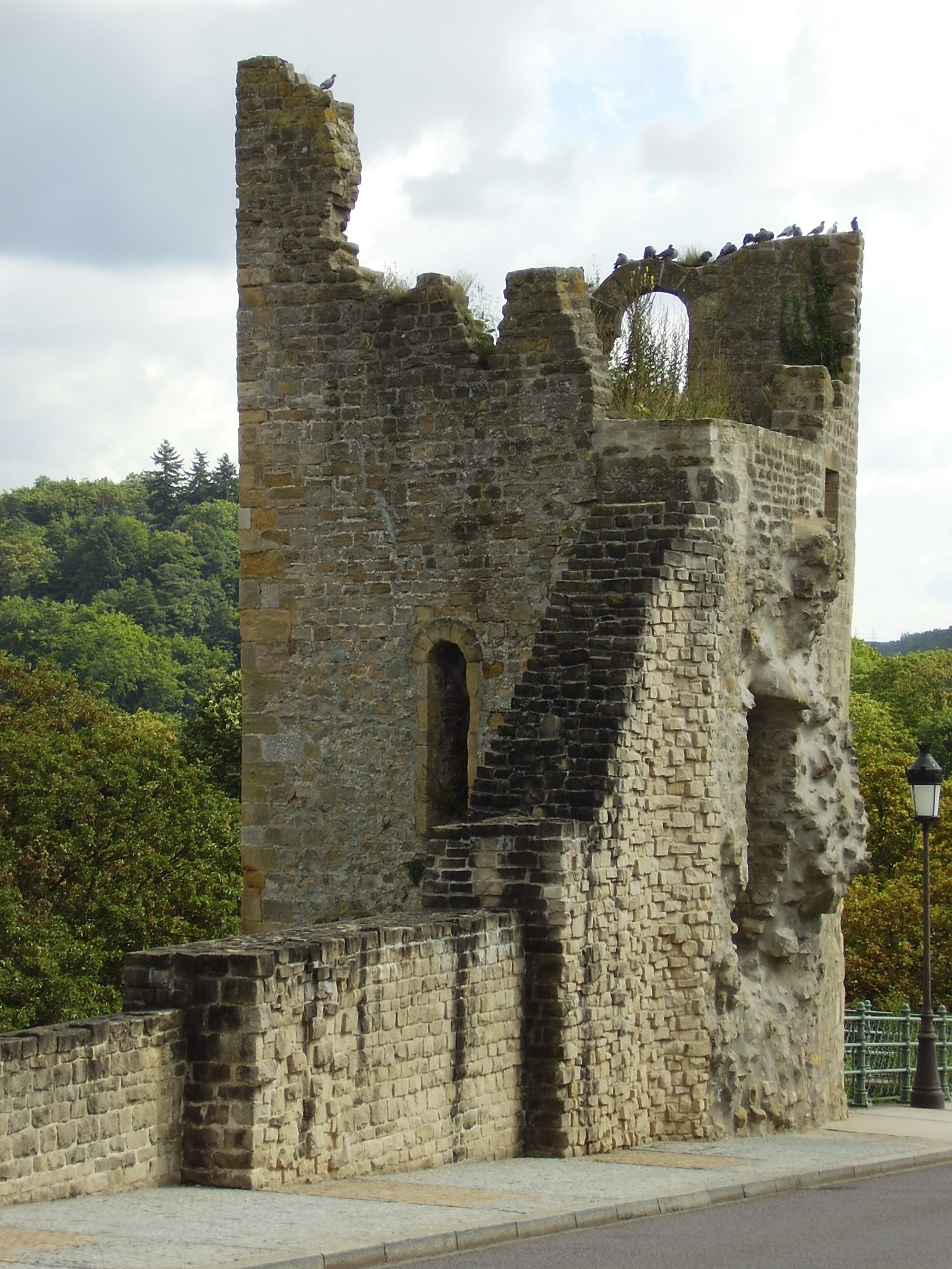 Luxembourg Fortress: "Huelen Zant" - Remains of one of the two towers of one of the gates of the fortress, on the Bock rock. When the fortress was dismantled, after 1871, the tower was only half destroied and transformed so to look like a ruin of a medieval castle.